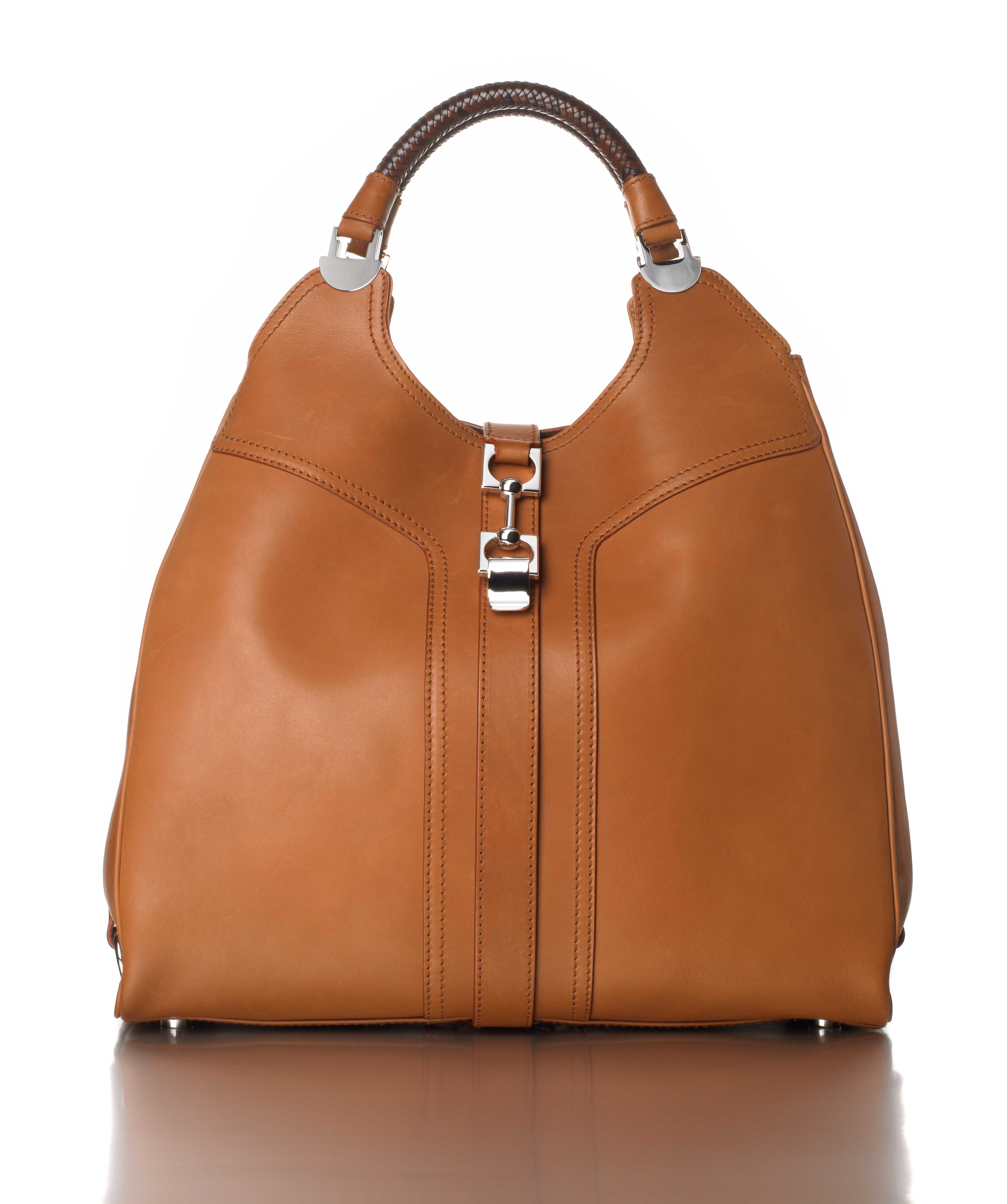 Eva handbag Tanner Krolle